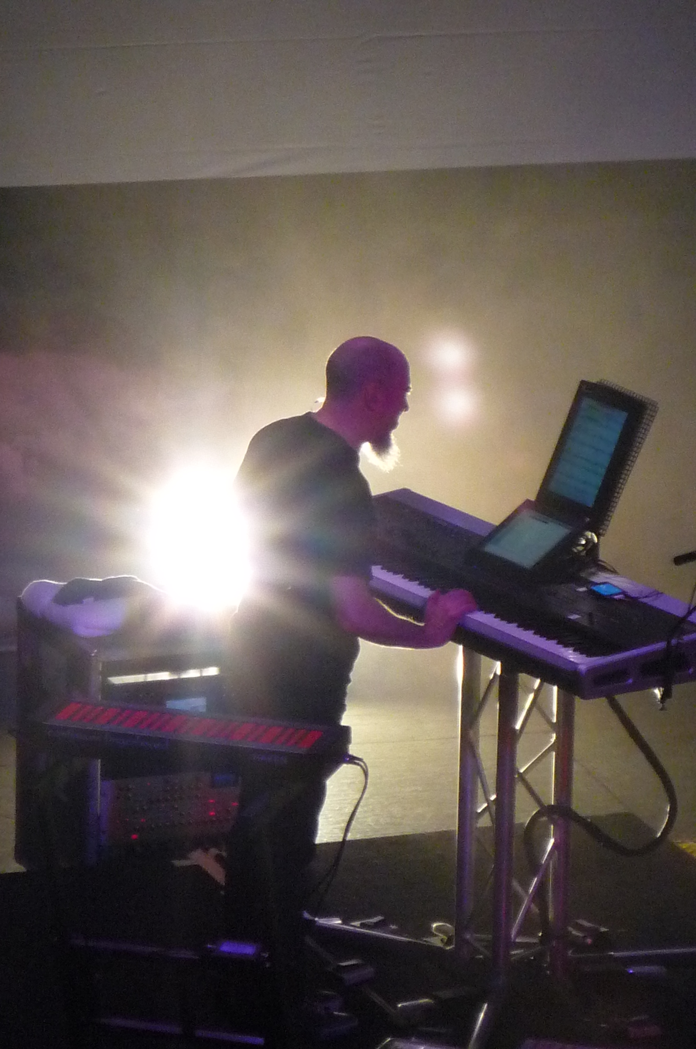 Jordan Rudess (Dream Theater), Monterrey, 2010